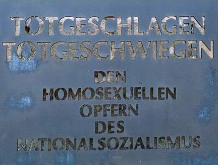 Homosexual Memorial at Sachsenhausen. Wall memorial. "Deathblow, deadly silence of the homosexual victims of National Socialism."